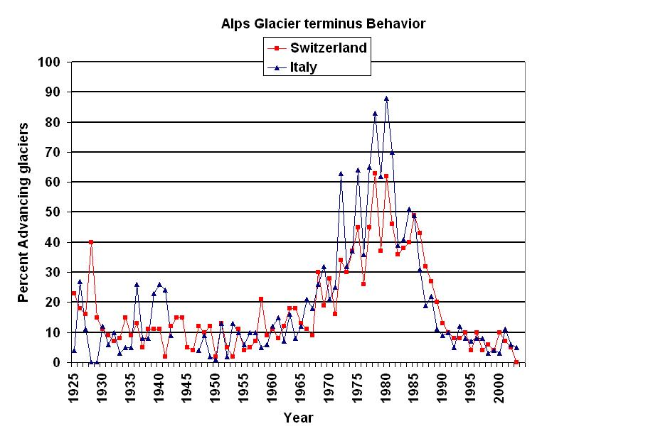 Glacier terminus behavior in the Alps, indicating the percentage of advancing glaciers. The terminus data is from the Swiss and Italian Glacier Commissions. (Pelto: pat g Example.jpg